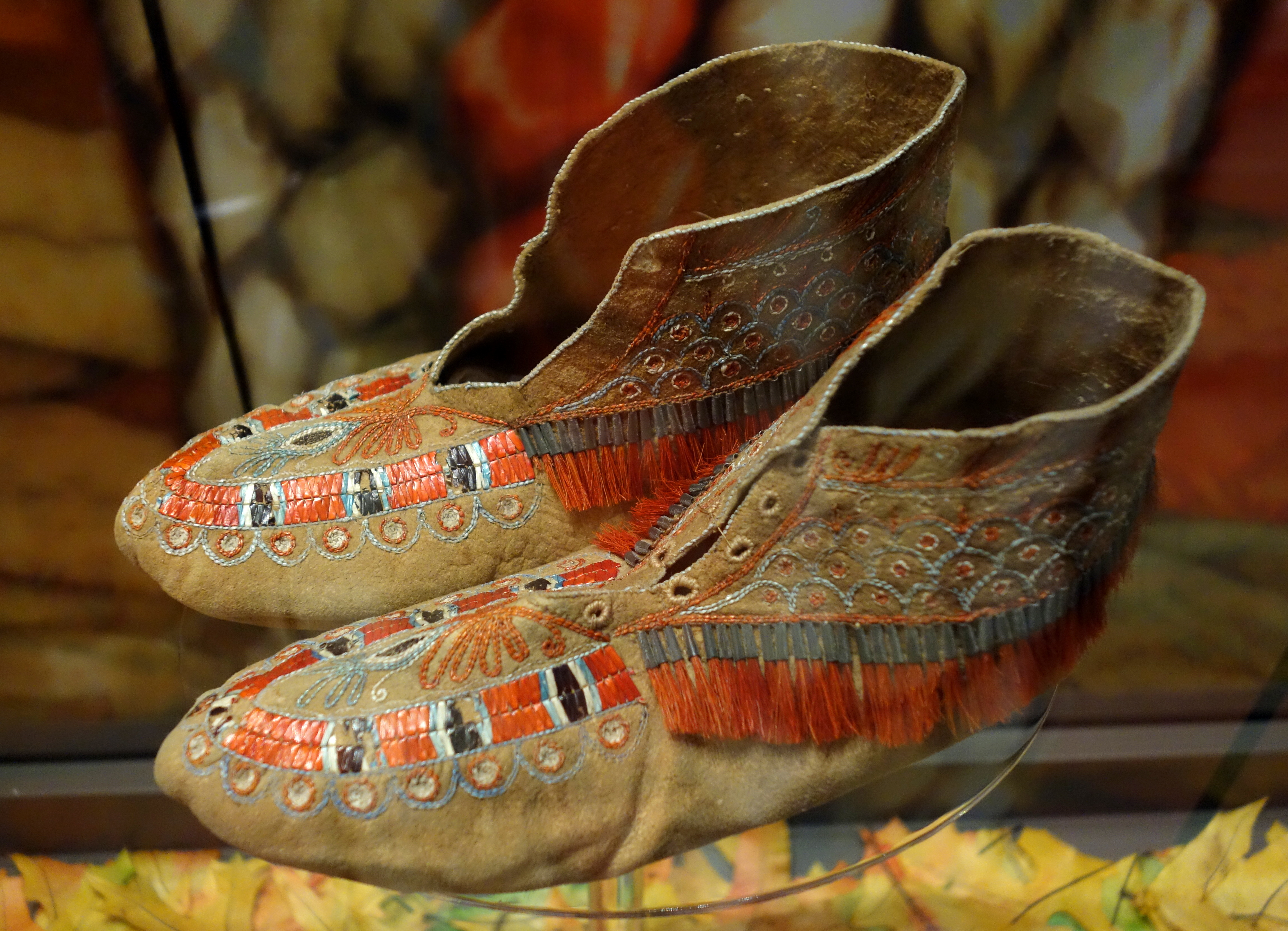 Exhibit in the Bata Shoe Museum, Toronto, Ontario, Canada. This item is old enough so that its design is in the public domain. The museum permitted photography without restriction.